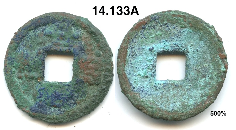 TANG DYNASTY 618 - 907 AD H 14 . 1 Kai Yuan, Early Wu de Kai Yuan, with Jing (Central part of Kai) above inner rim. Grey color from high tin content. 24.6mm, 4.176g HG283/6, Doo-Ty1 AVF H 14 . 101 Qian Yuan zhong bao Emp. Su Zong, 756-62 AD, 10 Cash, minted 758-59 AD, 29.3mm, about 7-8.7gm, salvage from a ship found in a Shaanxi river. Some sellers still asking $35 for this one. S352 Never circulated, nicely cleaned, they will retone in time. Average weight pieces $6 Each/5+; Single 8+ gm. specimens: H 14 . 105b Qian Yuan zhong bao Value 50, light version 10.5gm Scarcer than heavy version VF H 14 . 130 Da Li yuan bao Emp. Dai Zong, 766-79 Cast in Kuche, Xinjiang. 23mm, 3.266g FFD703 H303/5 VF, green H 14 . 133A Jian Zhong tong bao Emp. De Zong, 780-83 Small characters variety. Cast in Kuche, Xinjiang. 22mm, 2.696g FD705 H305/1 F, rough H 14 . 133 Jian Zhong tong bao Emp. De Zong, 780-83 Large characters variety. Cast in Kuche, Xinjiang. 22mm, 2.696g FFD704 H305/3 AVF H 14 . 140 De Yi yuan bao Tang Rebel Shi Siming, 758-61 36 mm, 12.146g Plain reverse, scarcer than with crescent HG315/1, S407v, [FN$876 presumably for commonere crescent type] VF / rough reverse H 14 . 147 Shun Tian yuan bao Tang Rebel Shi Siming, 758-61 Rev: crescent above 36.0 mm, 18.030 g FFD752, S409, HG318/1, [FN$146] AVF .